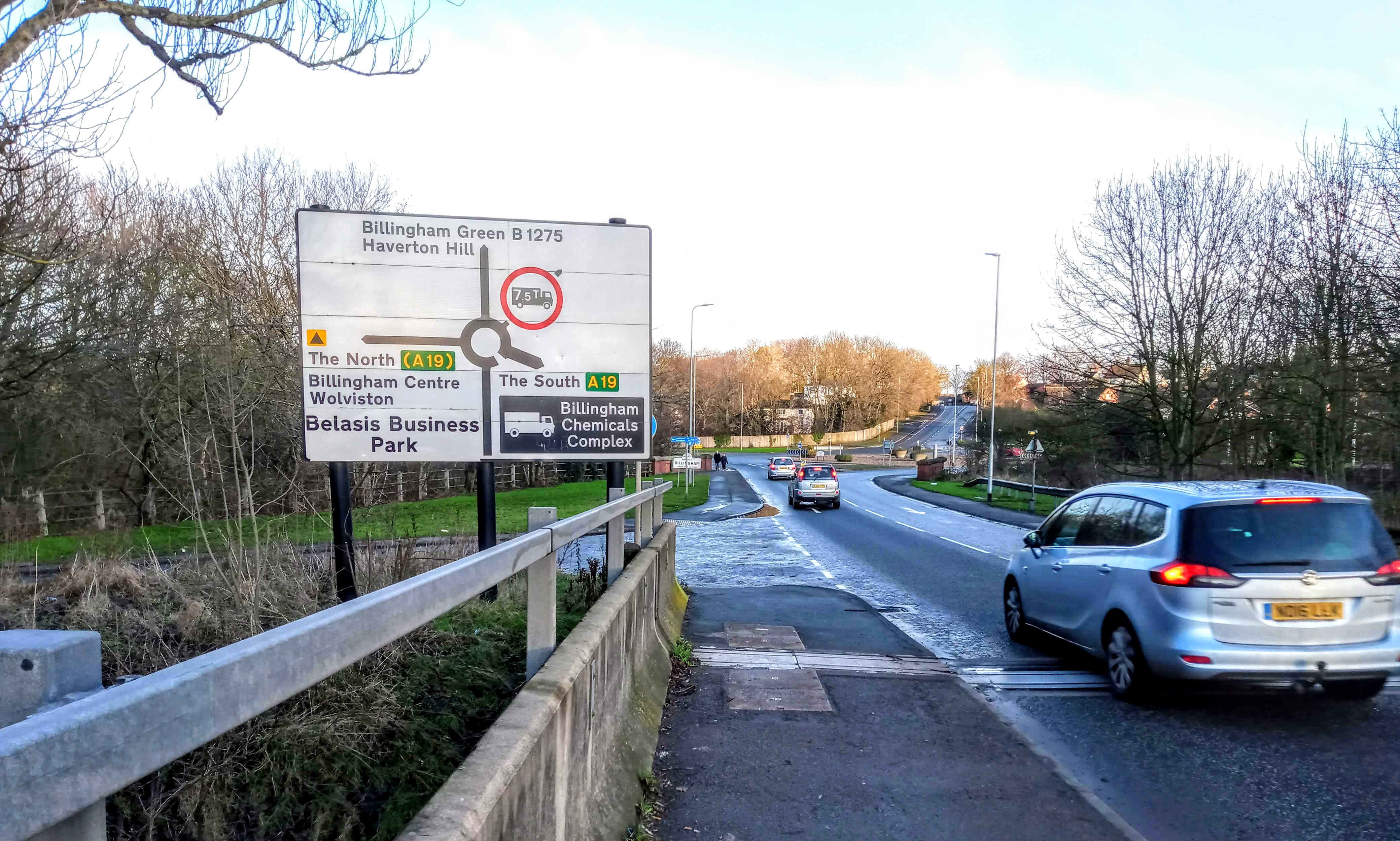 Billingham